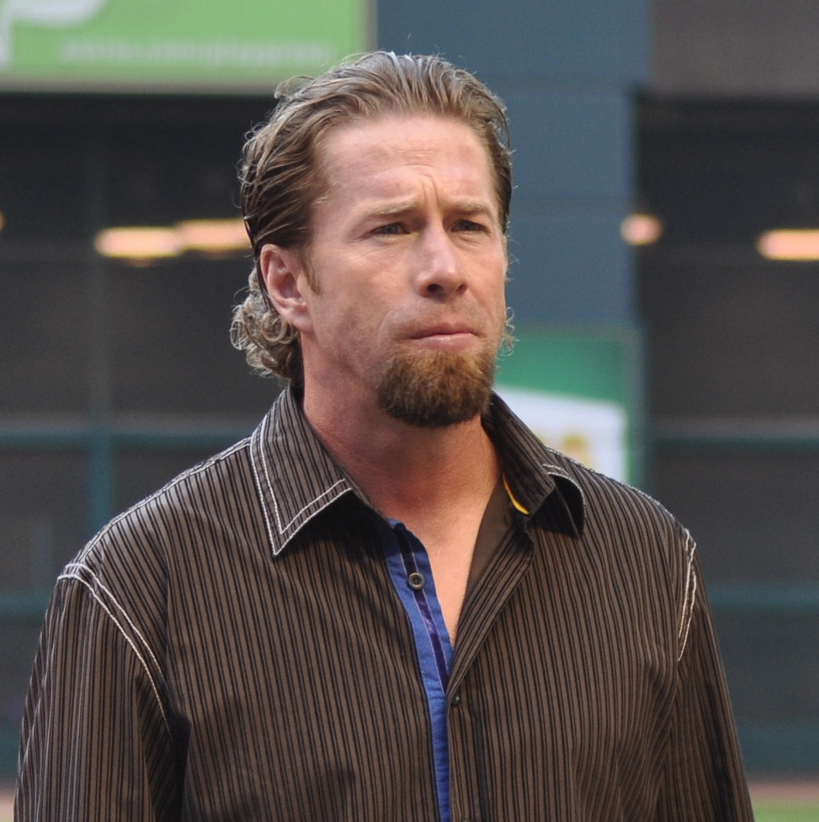 Jeff Bagwell (left) and Craig Biggio (right)